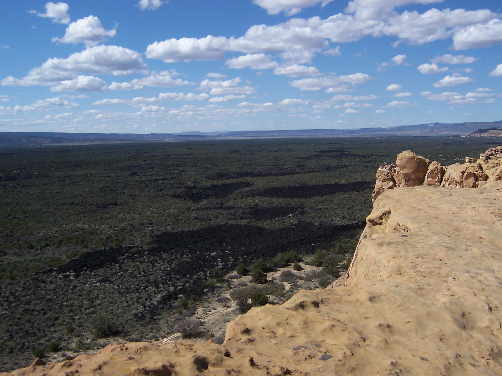 View of El Malpais Lava Fields — in the El Malpais National Conservation Area and El Malpais National Monument, northwestern New Mexico. Seen from Cebollita Mesa (right foreground), and within the Zuni-Bandera Volcanic Field lava flow formation. Credits by Bryce Chackerian; May 2005. Category:Images of New Mexico